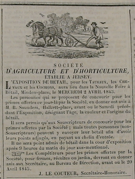 Advertisement for Royal Jersey Agricultural and Horticultural Society agricultural show from newspaper Le Constitutionnel 29 March 1845